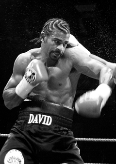 David Haye vs Ismail Abdoul, EBU (European) Cruiserweight Title.